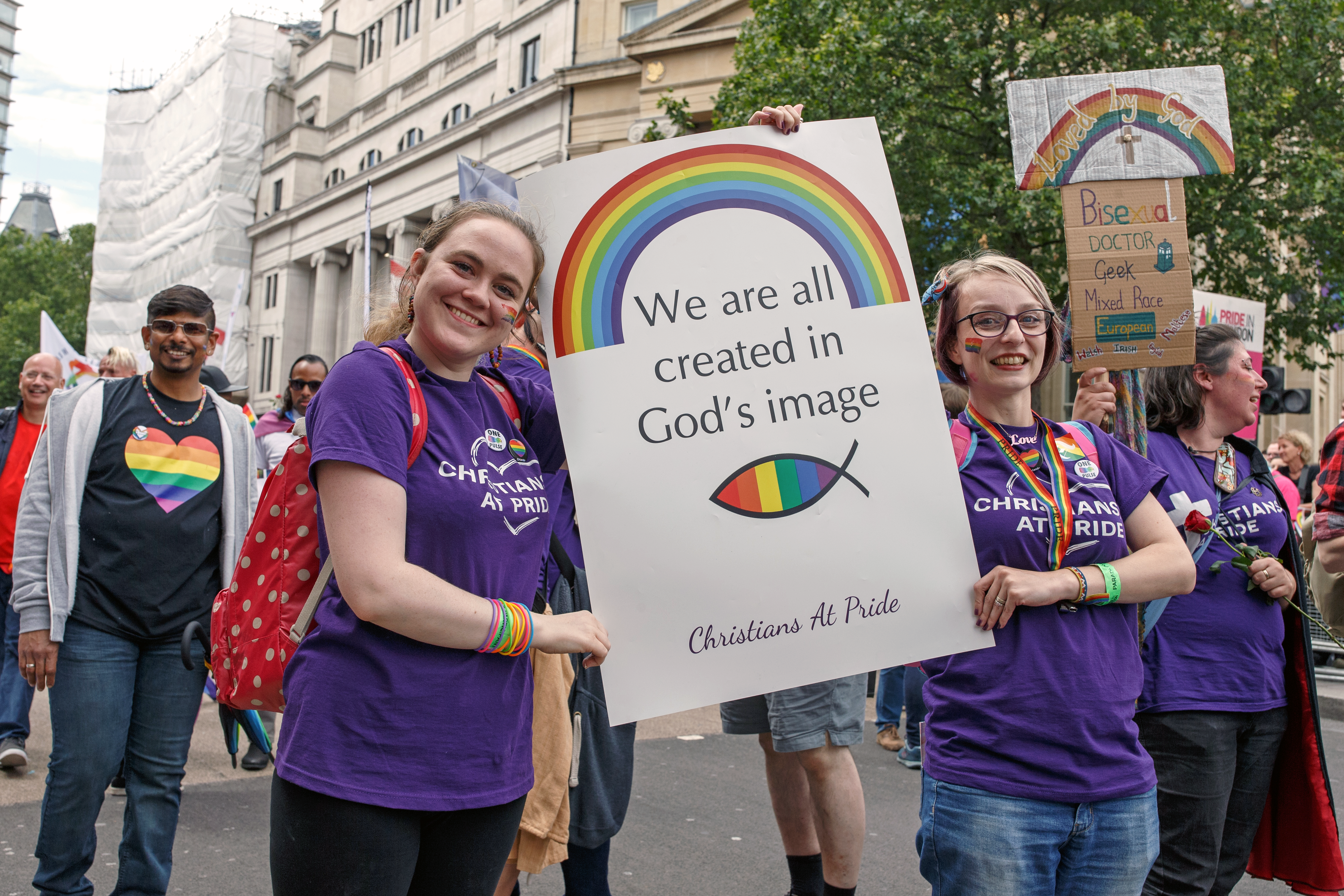 Two young Christian women holding a sign during the Pride in London 2016 parade. The sign states "We are all created in God's image".